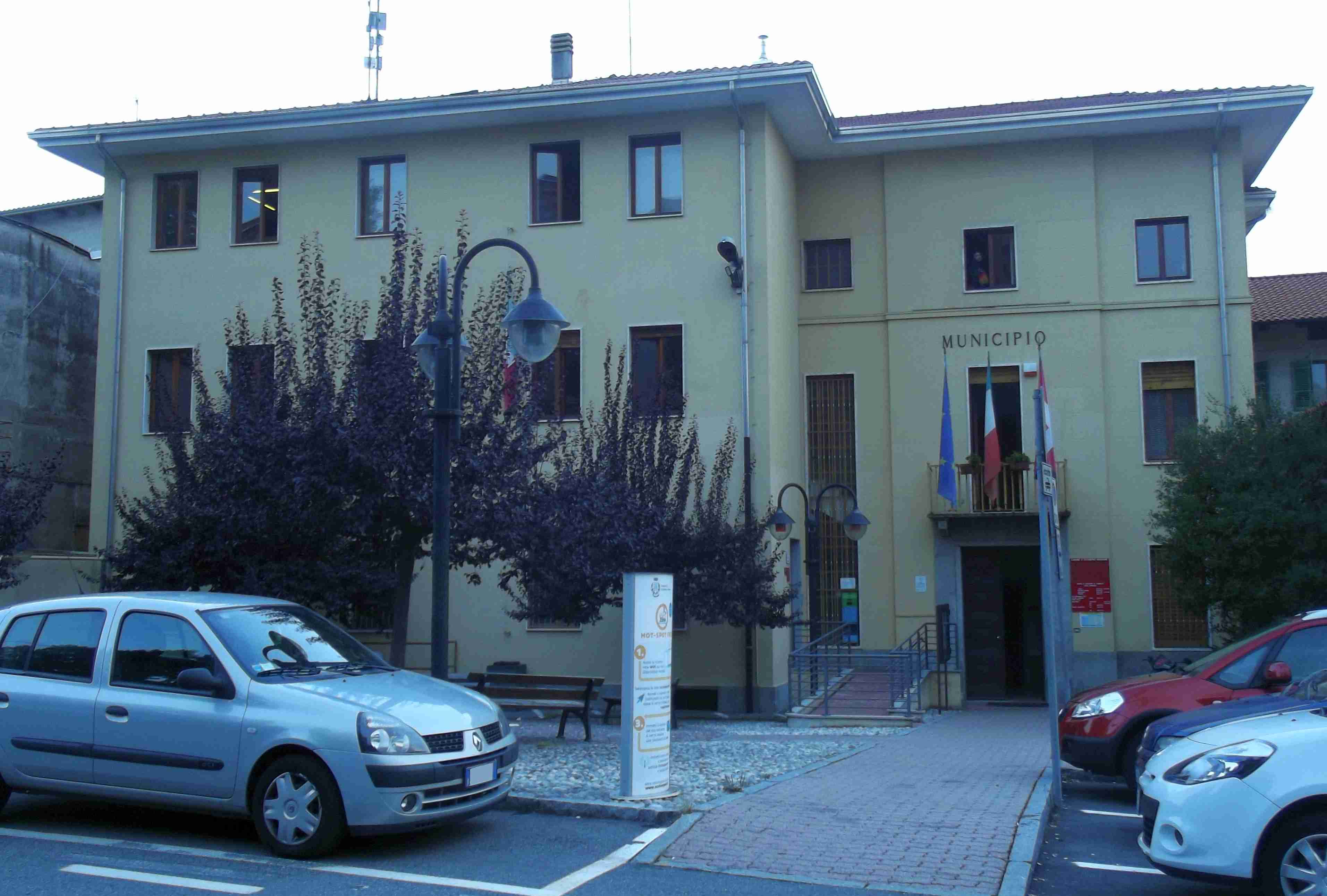 Occhieppo Inferiore (BI, Italy): town hall